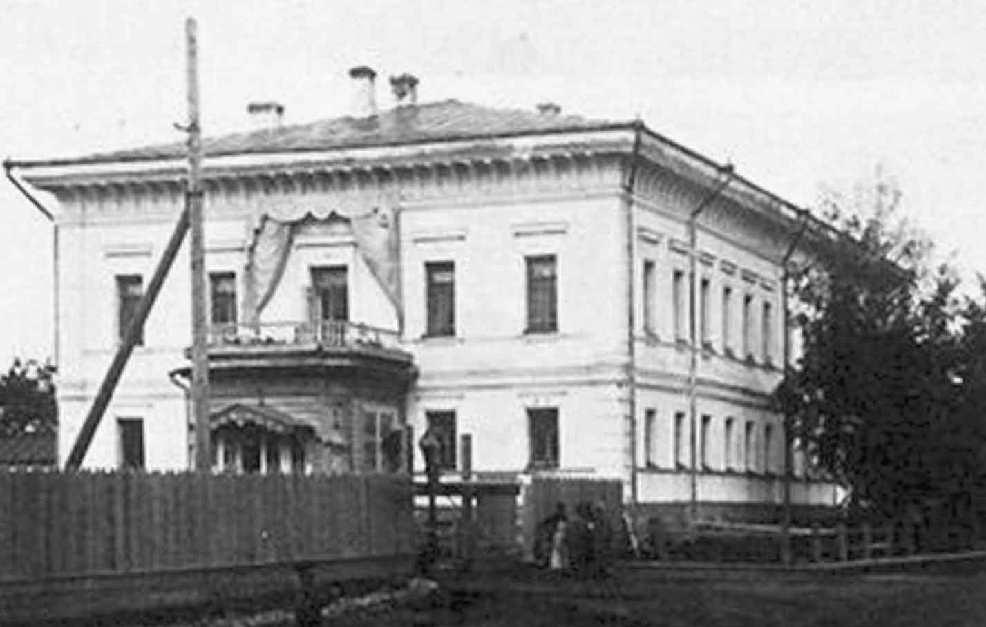 The Governor's Mansion in Tobolsk, where the Russian Royal family was held in captivity between August 1917 and April 1918.